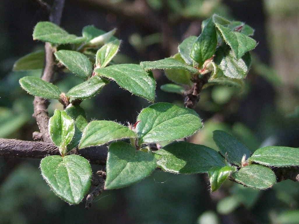 Cotoneaster wardii